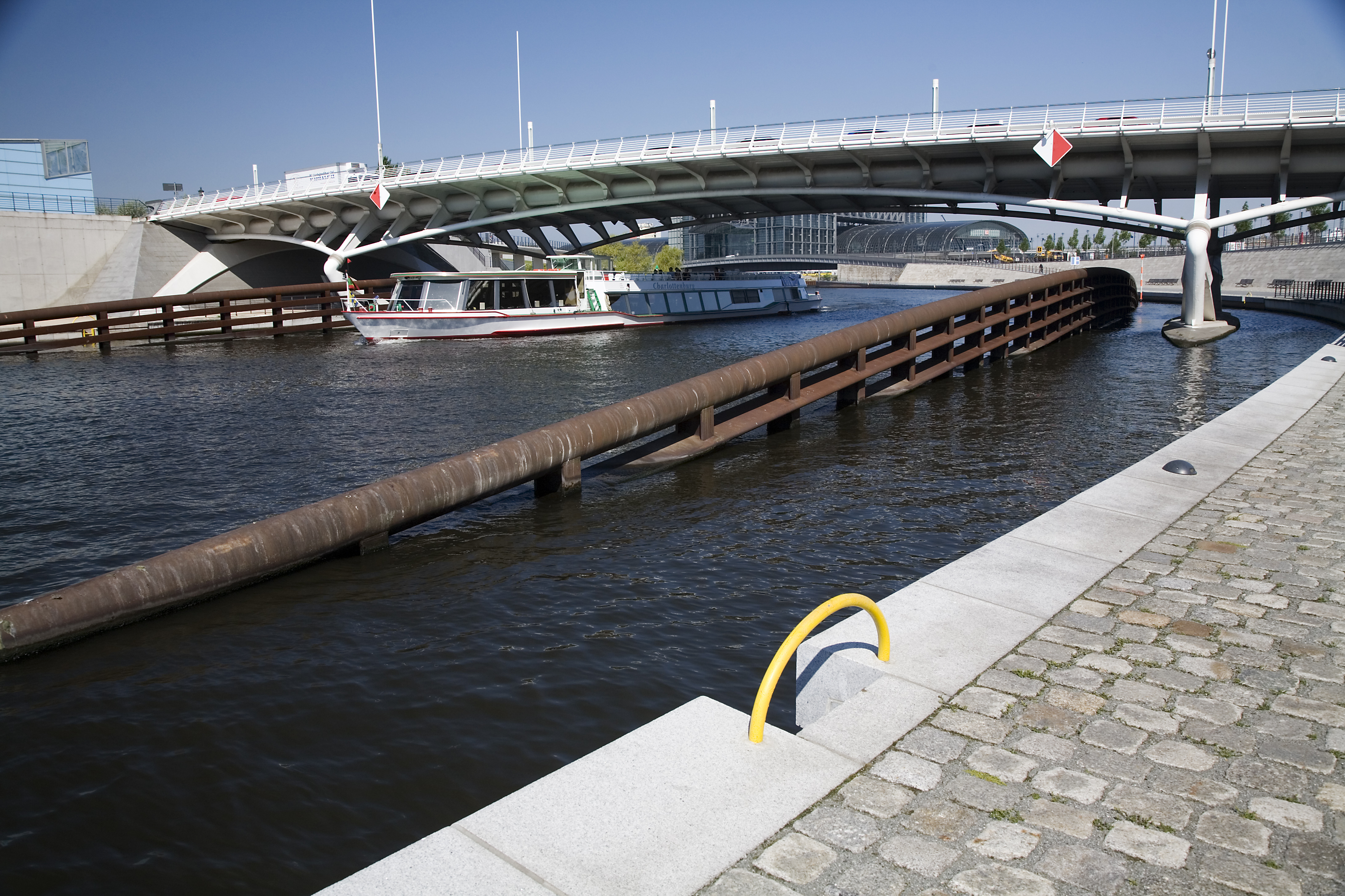 Kronprinzenbrücke, Berlin